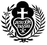 Emblem of Passionists congregation, from a 19 century print.